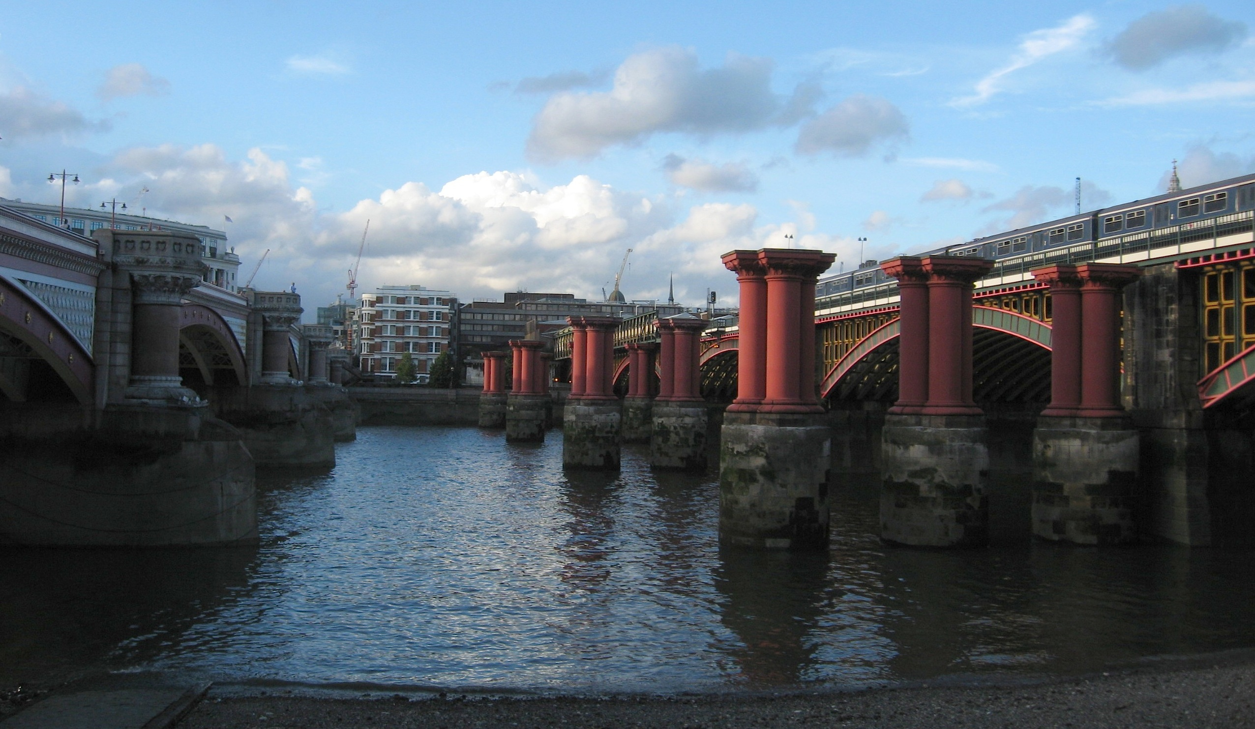 View from south bank between Blackfriars and Blackfriars Railway bridges, showing train, late afternoon light